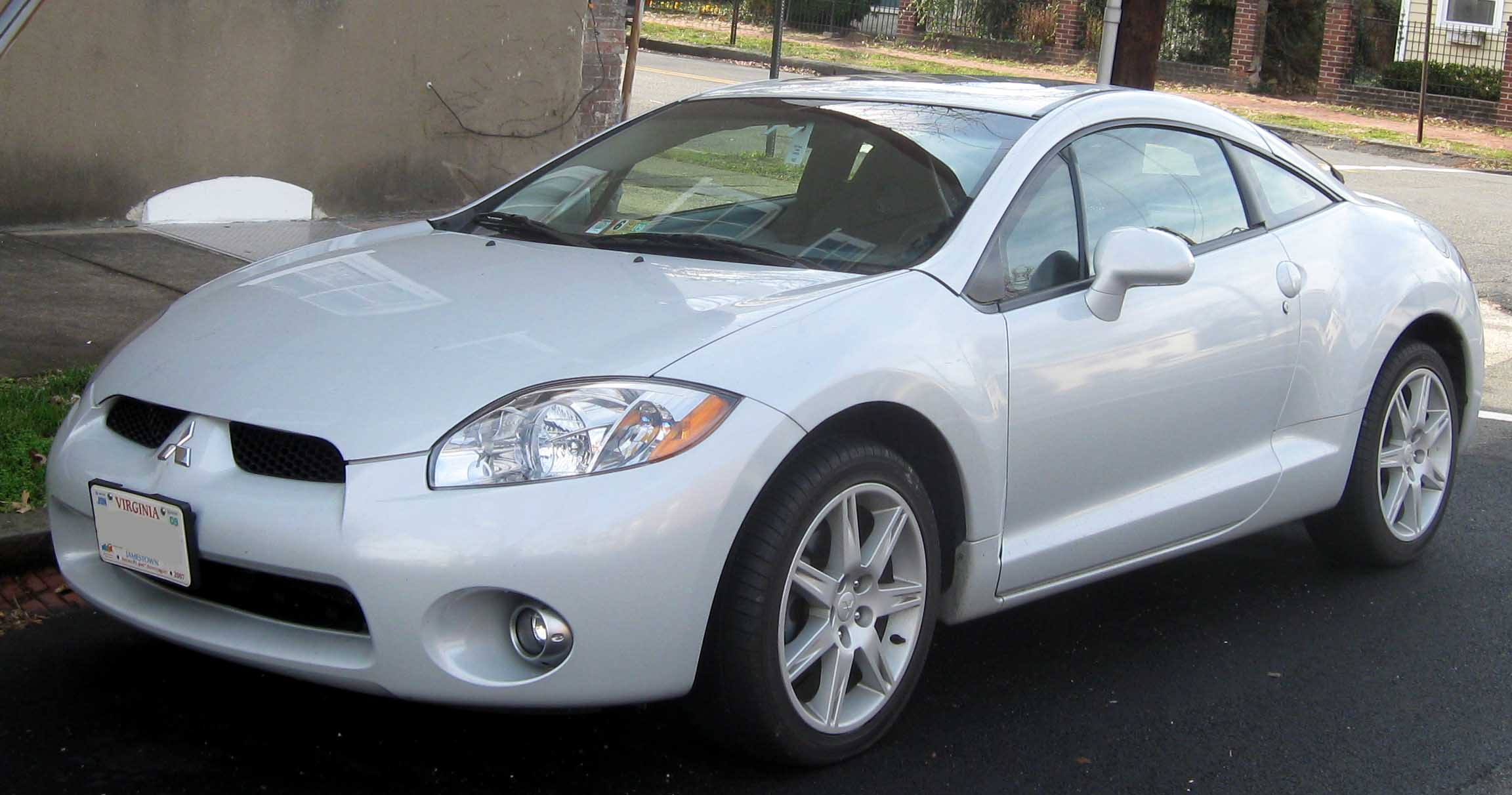 2006-2008 Mitsubishi Eclipse photographed in Alexandria, Virginia, USA.